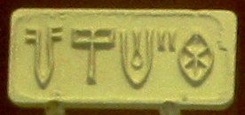 Impression of an Indus Valley seal, showing an "Indus script" string of five characters (British Museum, 2005 photograph)